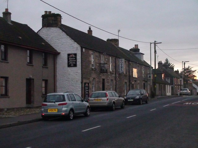 Smiddy Haugh Hotel, Aberuthven